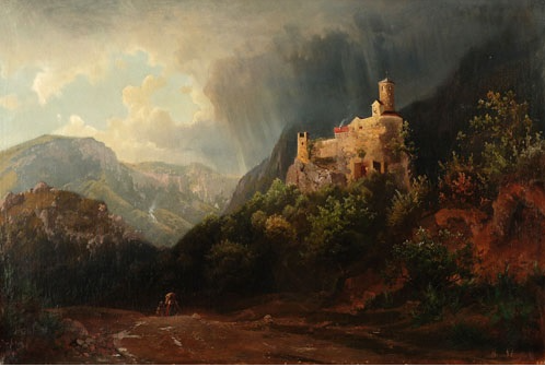 View of Schloss Bechburg